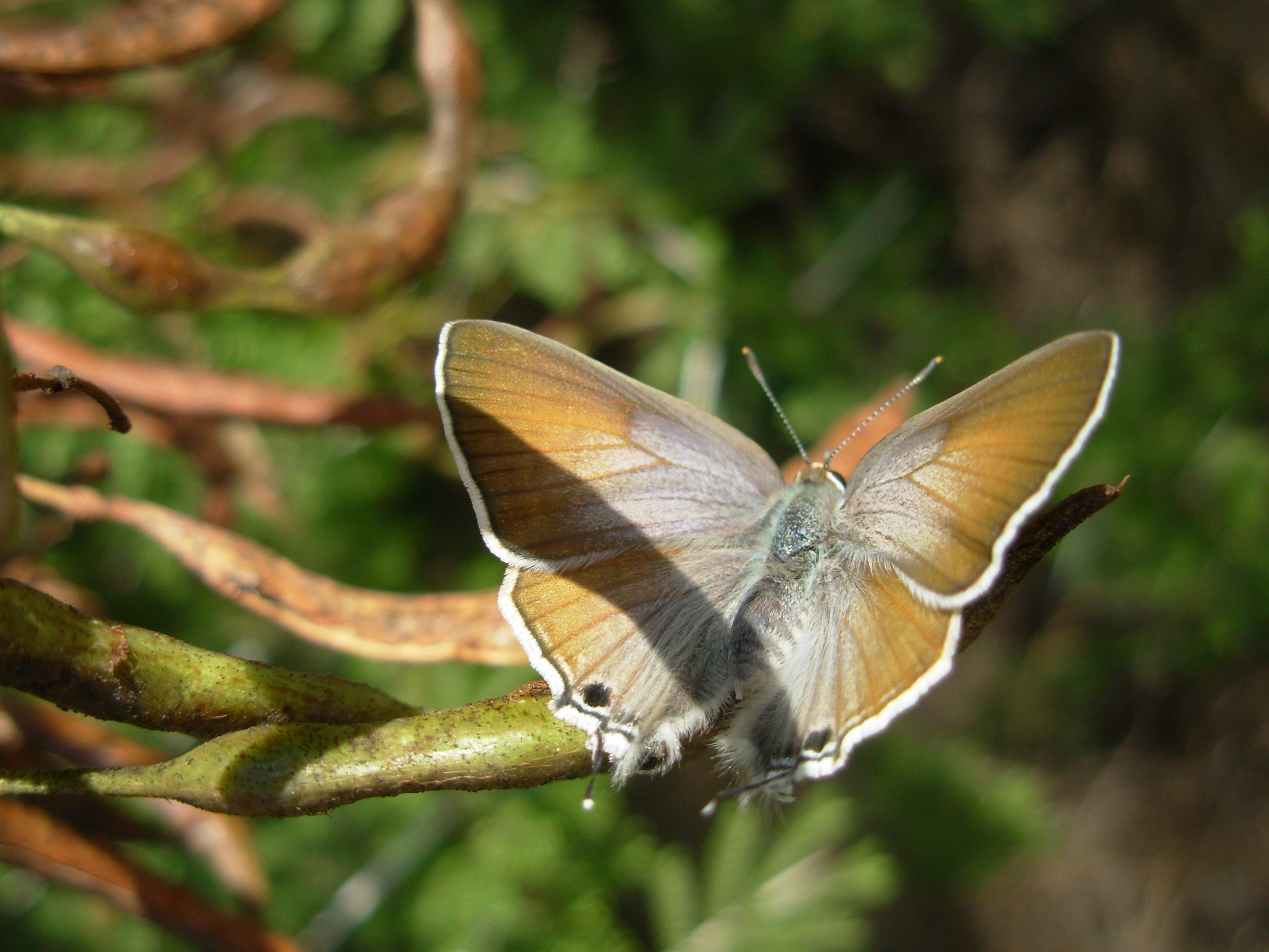 כחליל הרימון (Deudorix livia)התחנה לחקר ציפורי ירושלים